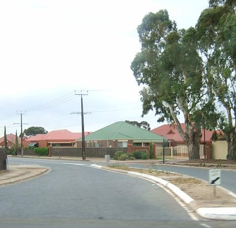 Harrison Rd, Renown Park, Adelaide, South Australia